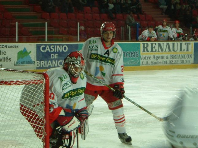 Gary Lévêque, french ice hockey player